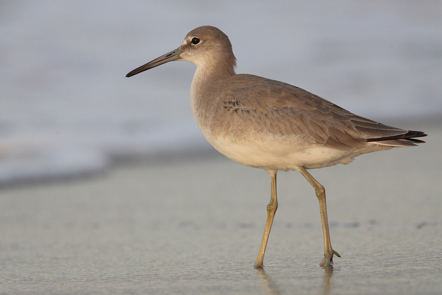 Willet (Tringa semipalmata, previously Catoptrophorus semipalmatus) Farallon, Panama.